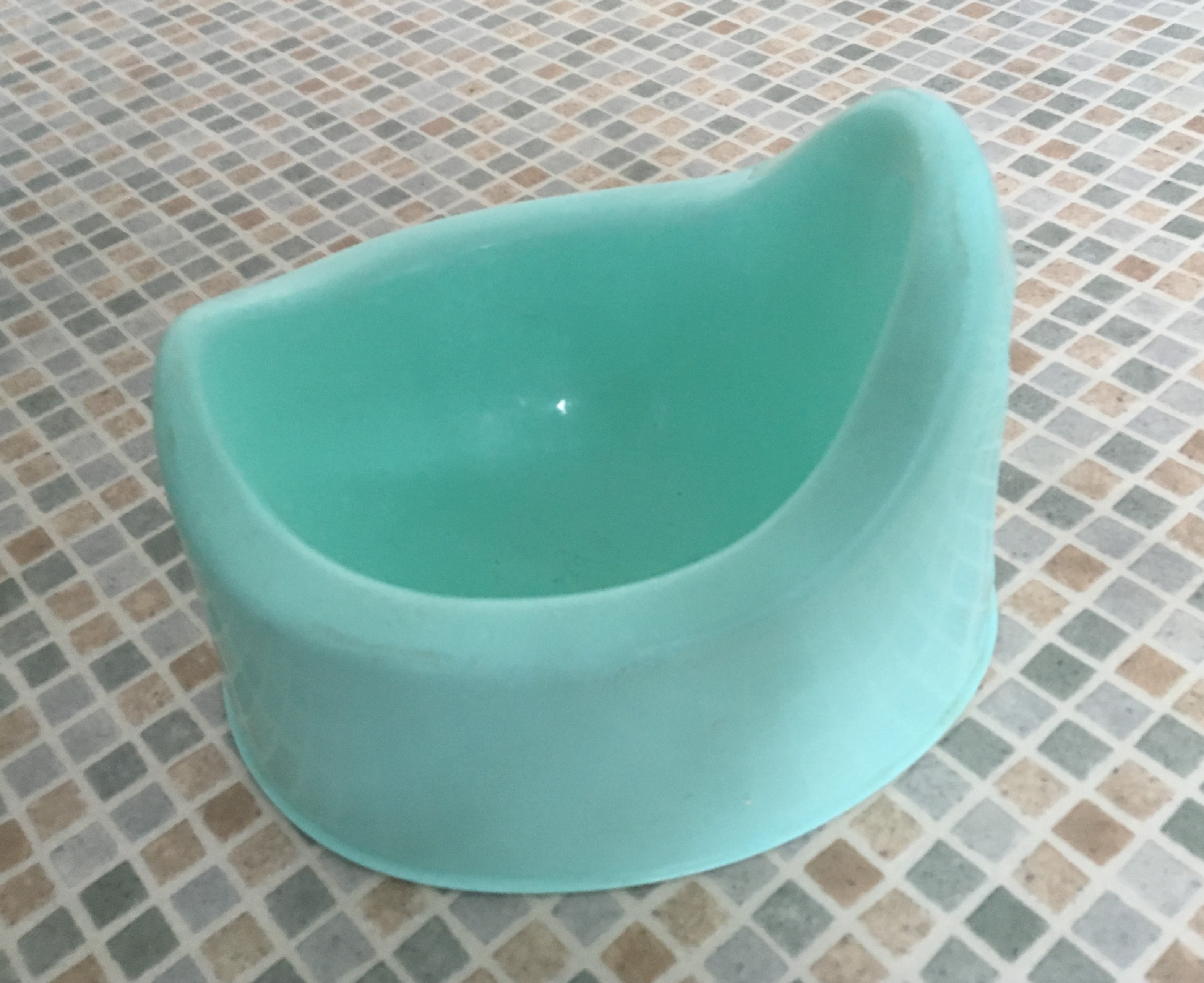 Simple plastic potty suitable for baby or small child